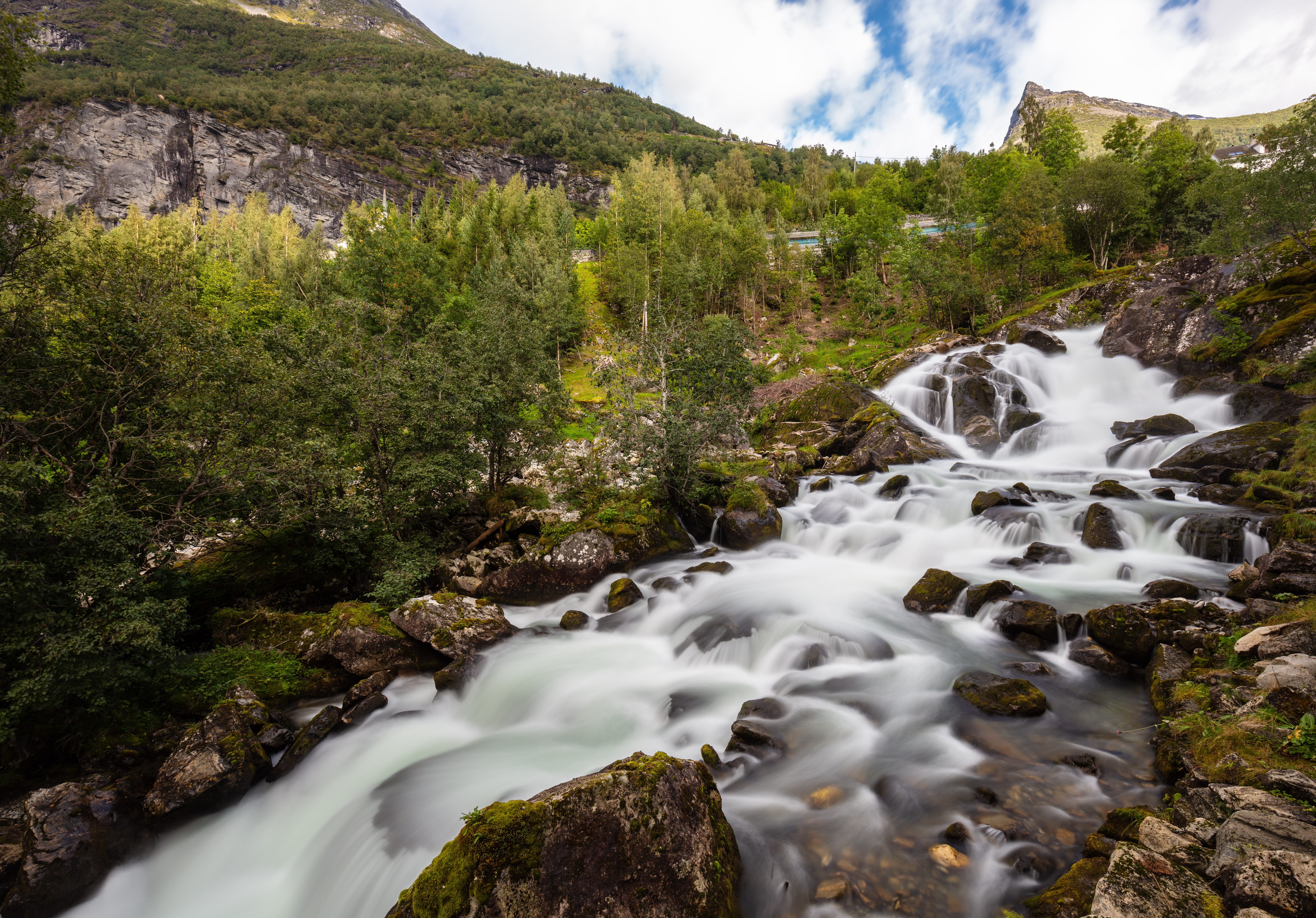 Storfossen Falls, Geiranger, Norway